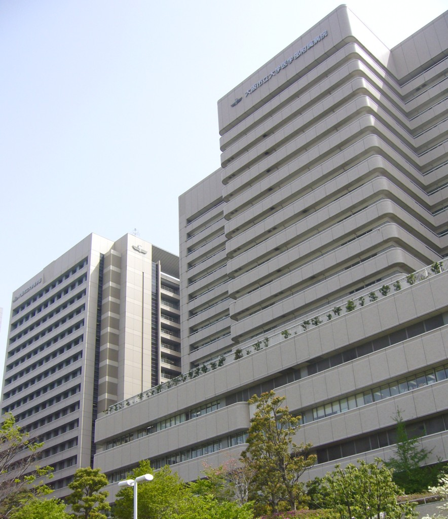 Osaka City University Hospital (right) and Medical School (left)